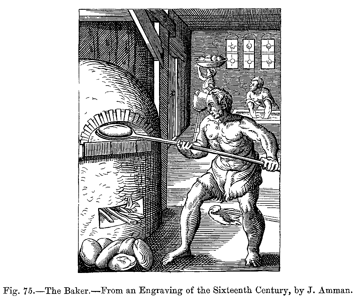 Baker from Das Ständebuch (The Book of Trades), 1568